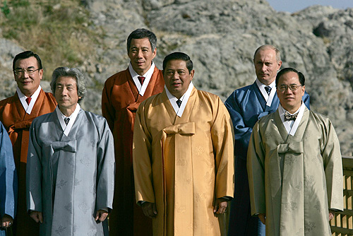 NURIMARU APEC HOUSE, BUSAN. Joint photography session for heads of state and government of the APEC forum member countries.